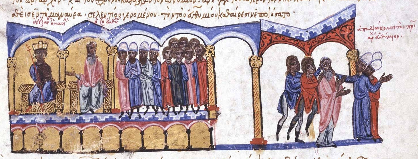 Emperor Alexander deposes Patriarch Euthymios